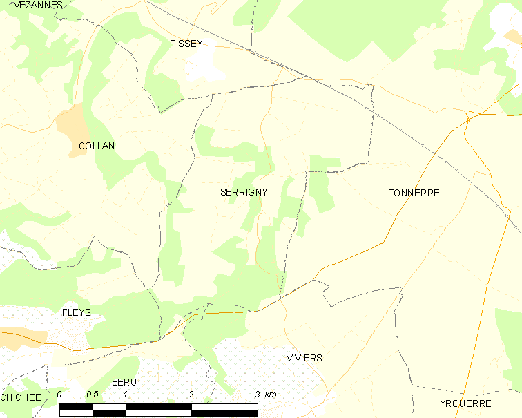 Map of French municipality Serrigny